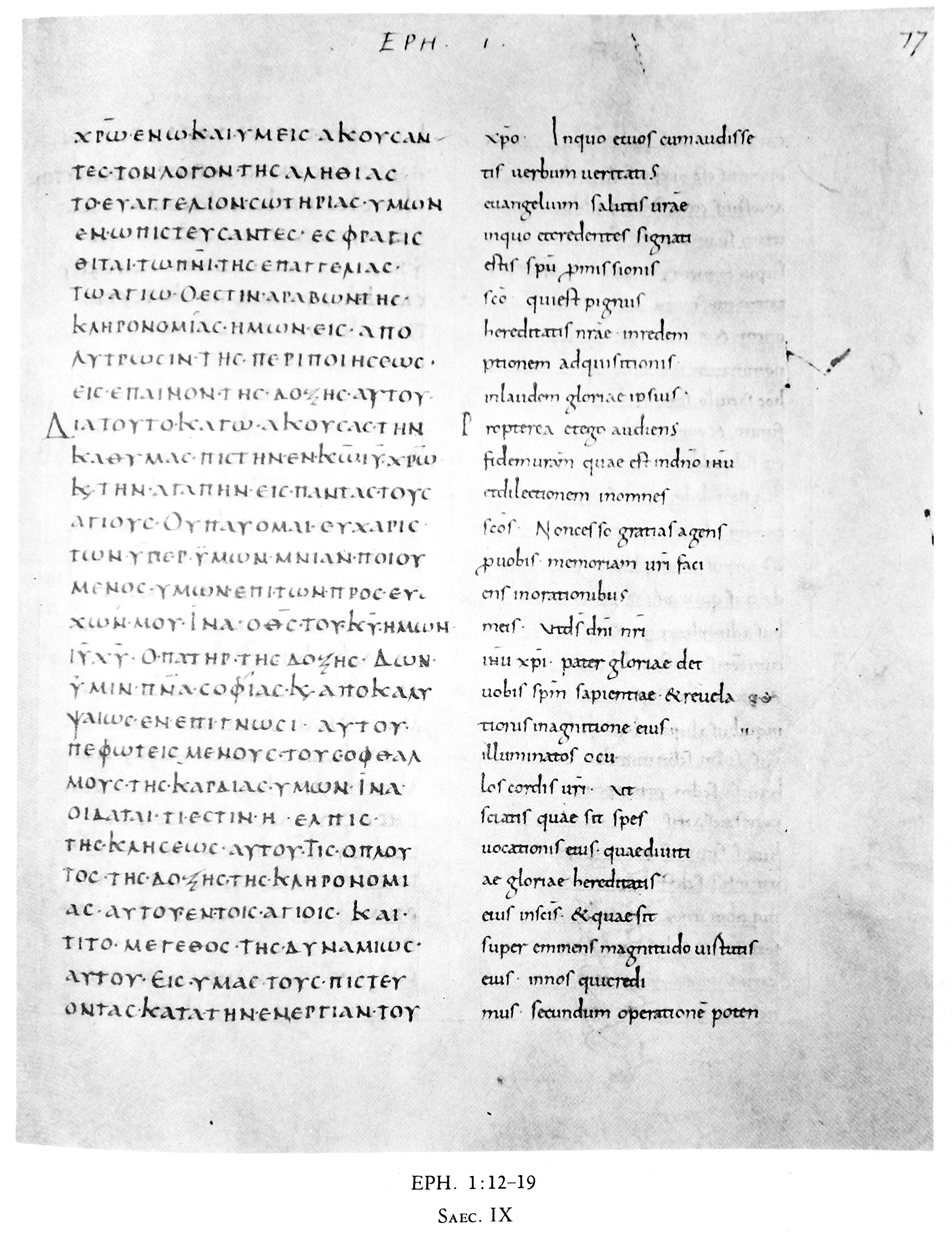 page of the codex with the text of the Ephesians 1:12-19